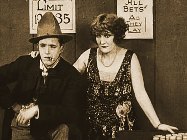 Stan Laurel and Mae Laurel in Wide Open Spaces, 1924.